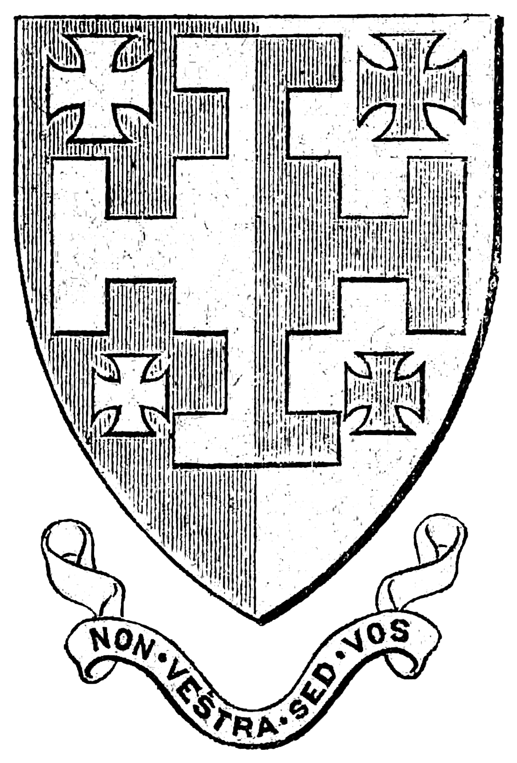 Early arms used by St Chad's Hostel Hooton Pagnell and St Chad's Hall Durham